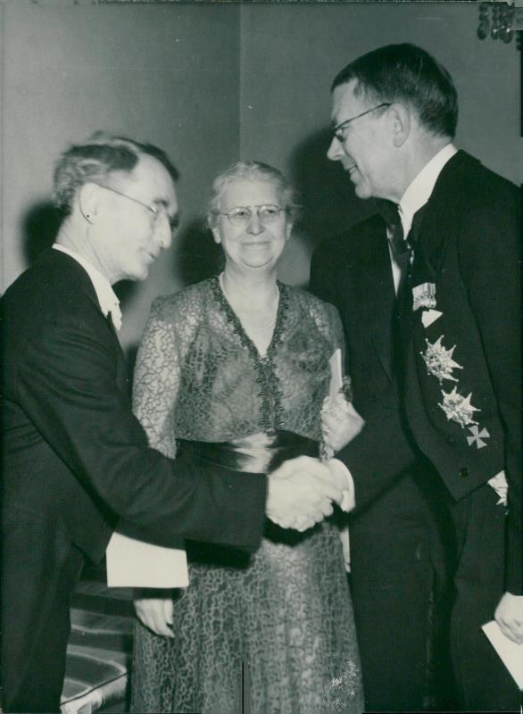 Nobel Banket in the City Hall. The Crown Prince greets Bridgman and his wife